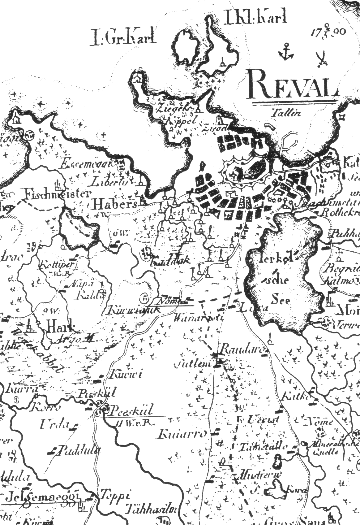 part from L. A. Mellin's "Atlas von Lieffland" - Tallinn and its neighbourhood